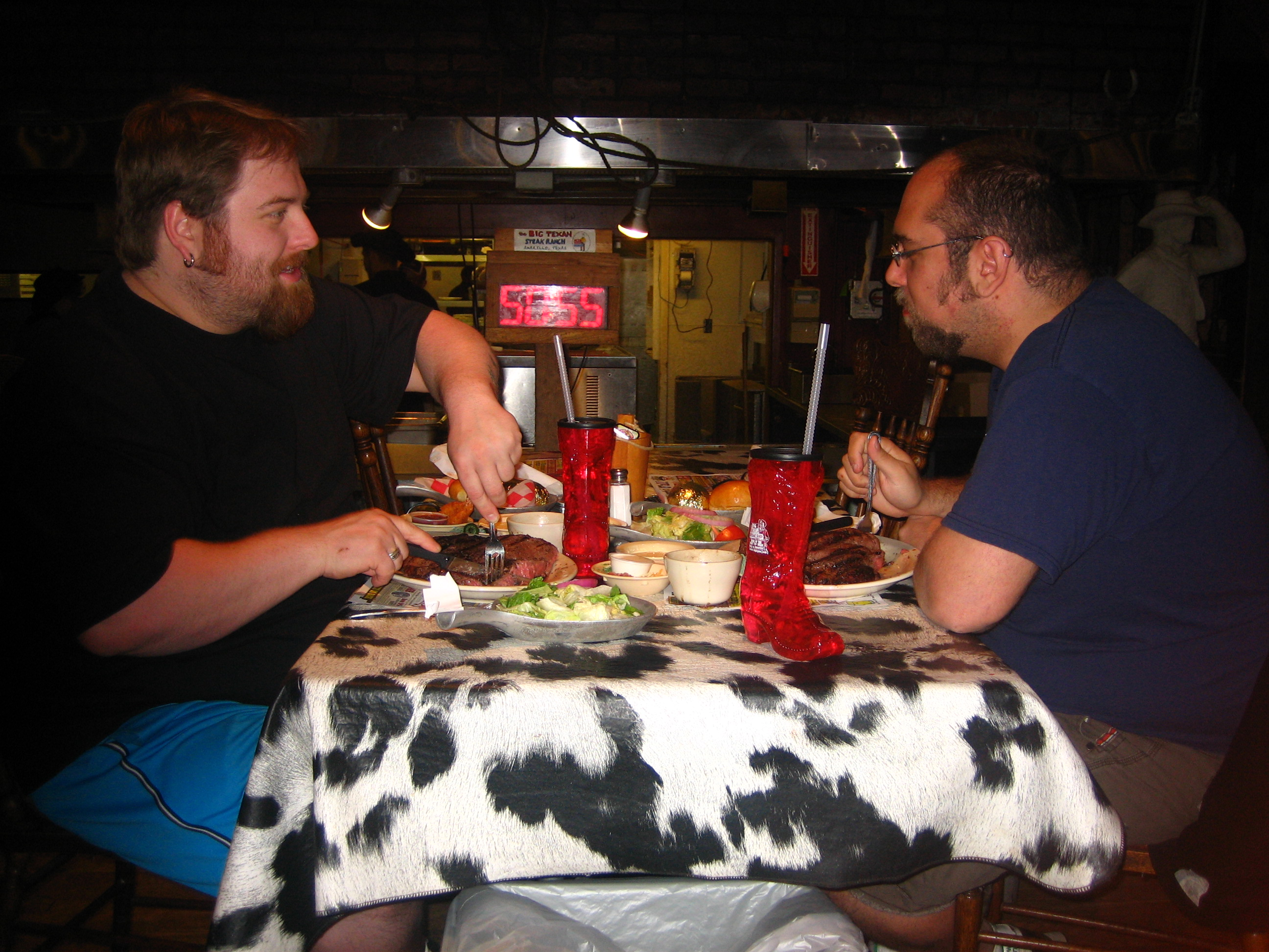 I took photo on April 6, 2008.Billy Hathorn (talk) 00:11, 29 June 2008 (UTC)